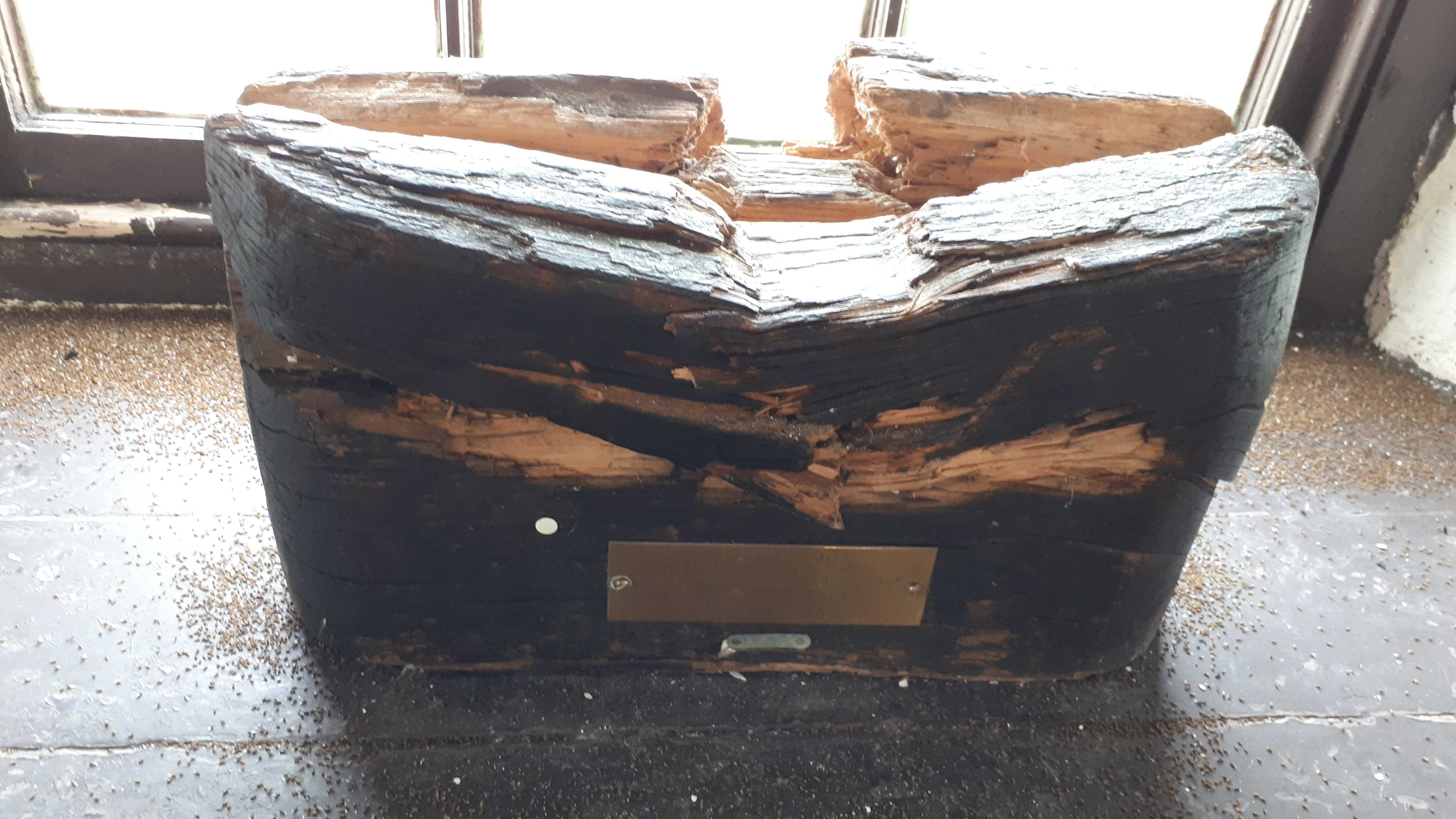 Sacrifice block in the steam engine control house of the Taylor's Shaft East Pool mine. A sacrifice wooden block was used as an audible protective and alarm mechanism to immediately notify the operator of a mine water pumping installation when too much steam would be applied at low power pumping conditions. In order to prevent machine breakdown, the operator would then immediately shut down or reduce the steam inflow.